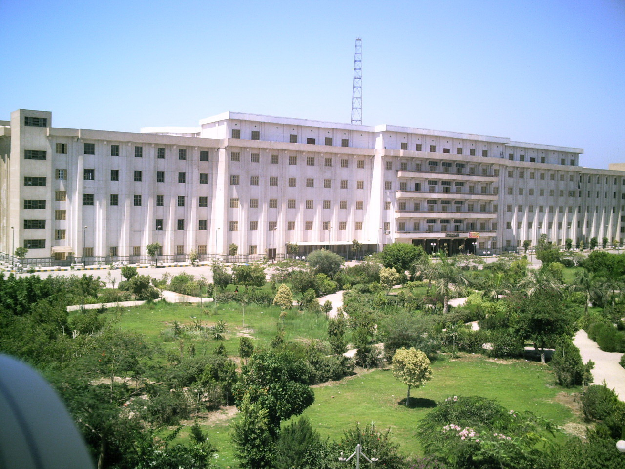 Main building of Beni-Suef University, Beni-Suef, Egypt